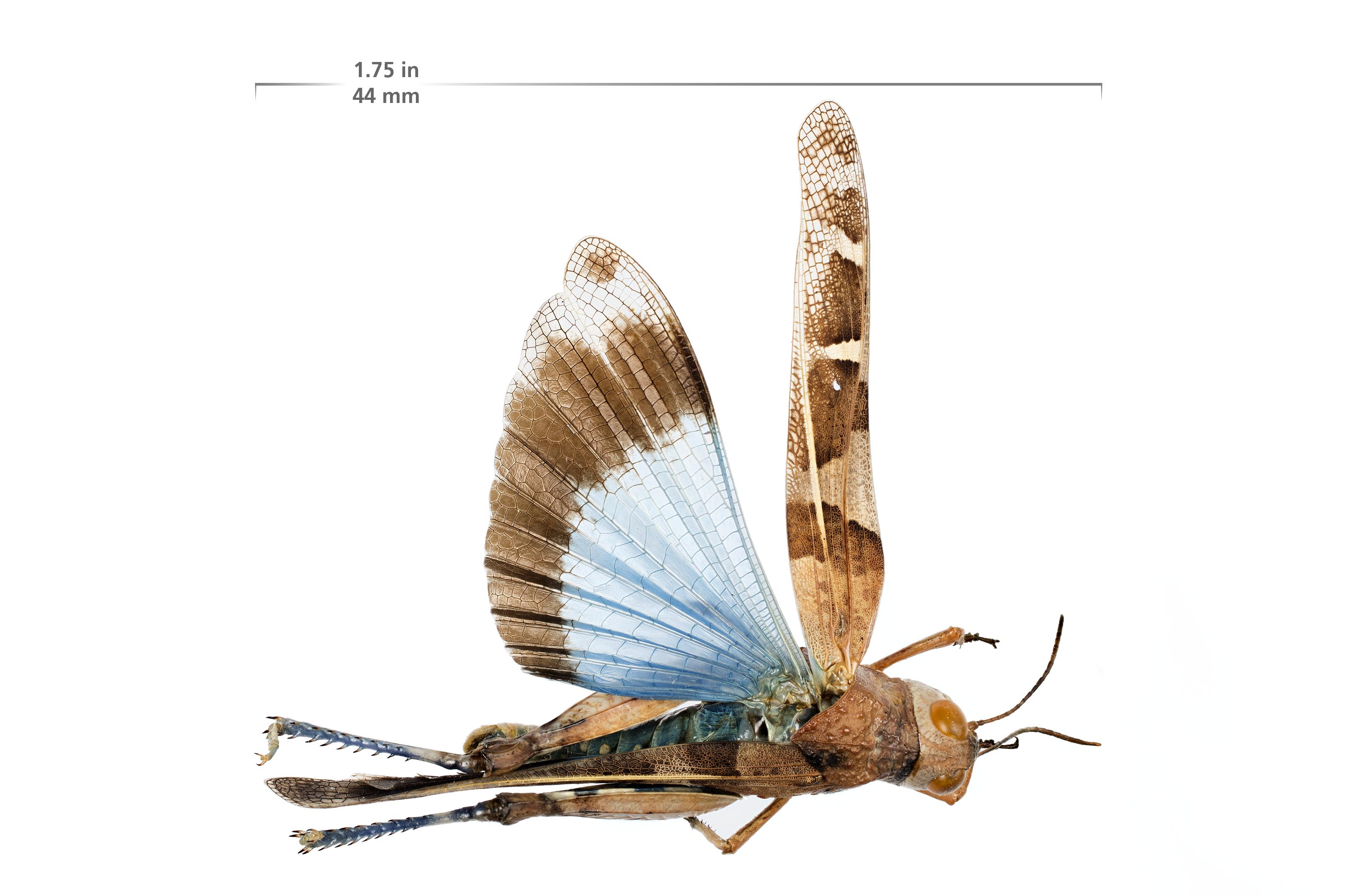 Genus - Greenbird grasshopper Species - cyaneous Common Name - blue winged grasshopper NPS Photo by Andrew Cattoir